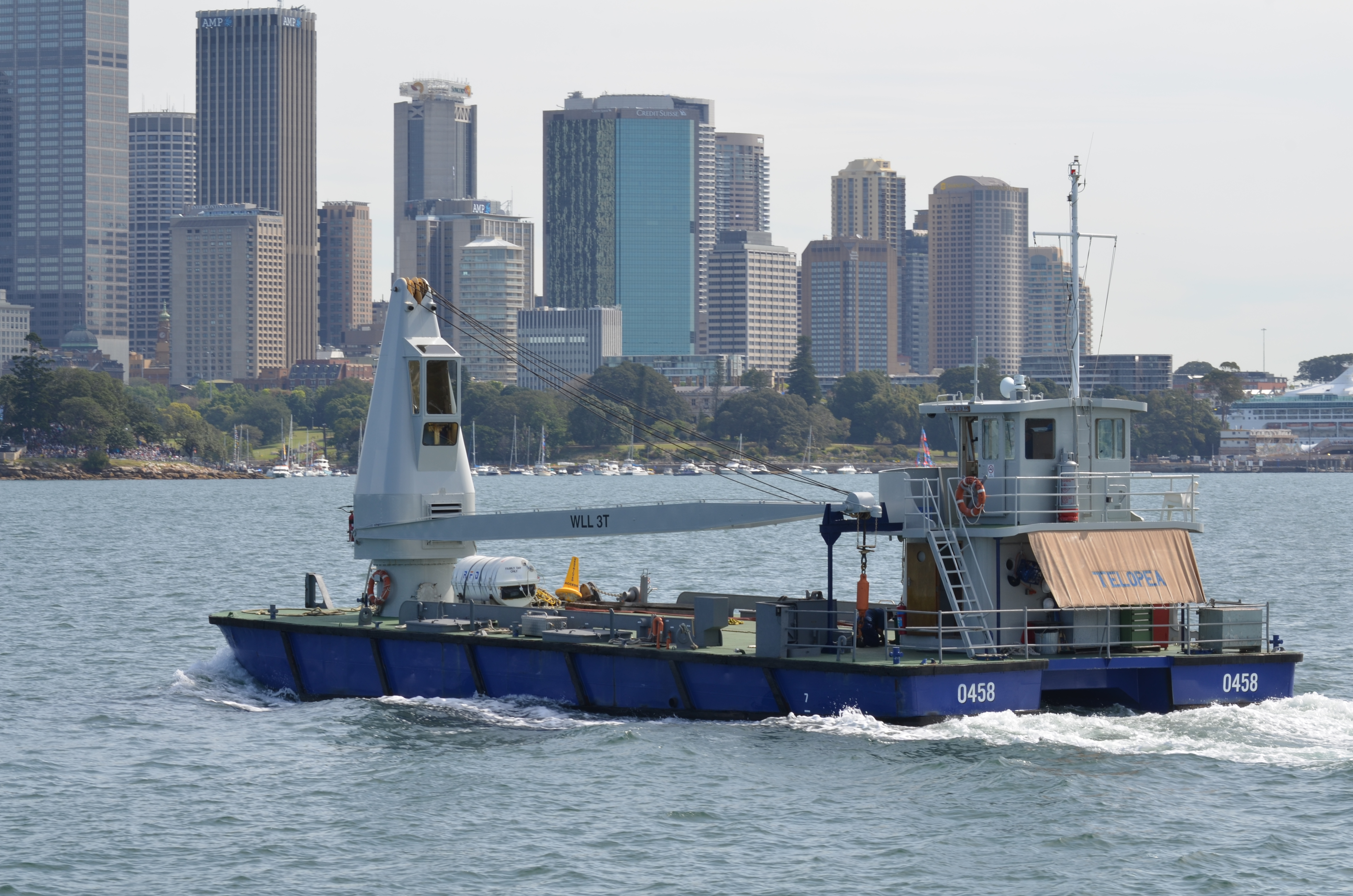 Photographs taken during day 3 of the Royal Australian Navy International Fleet Review 2013.